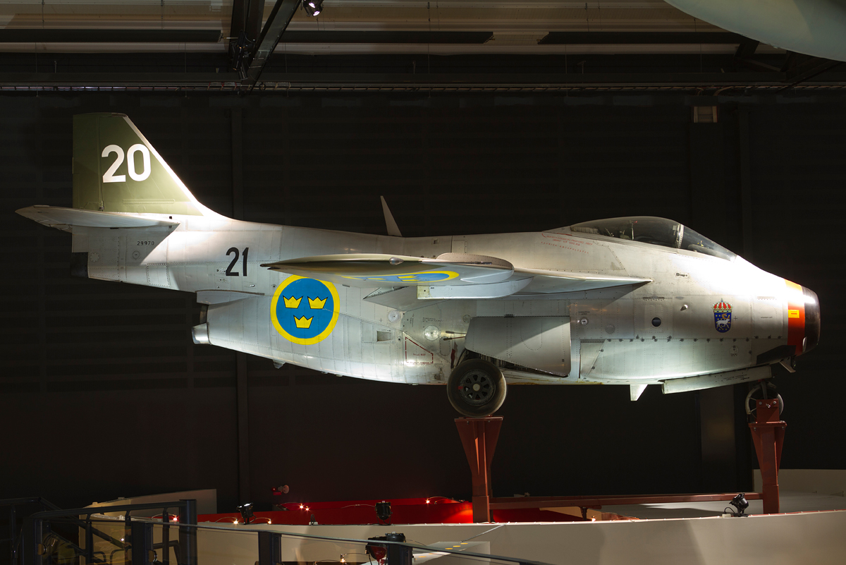 Saab S 29C Tunnan on permanent display at the Swedish Air Force Museum in Linköping, Sweden